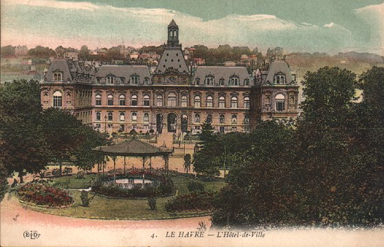 Town Hall of Le Havre, the venue of the Olympic Congress 1897 old Postcard, no restrictions on use Copyright: free of charges